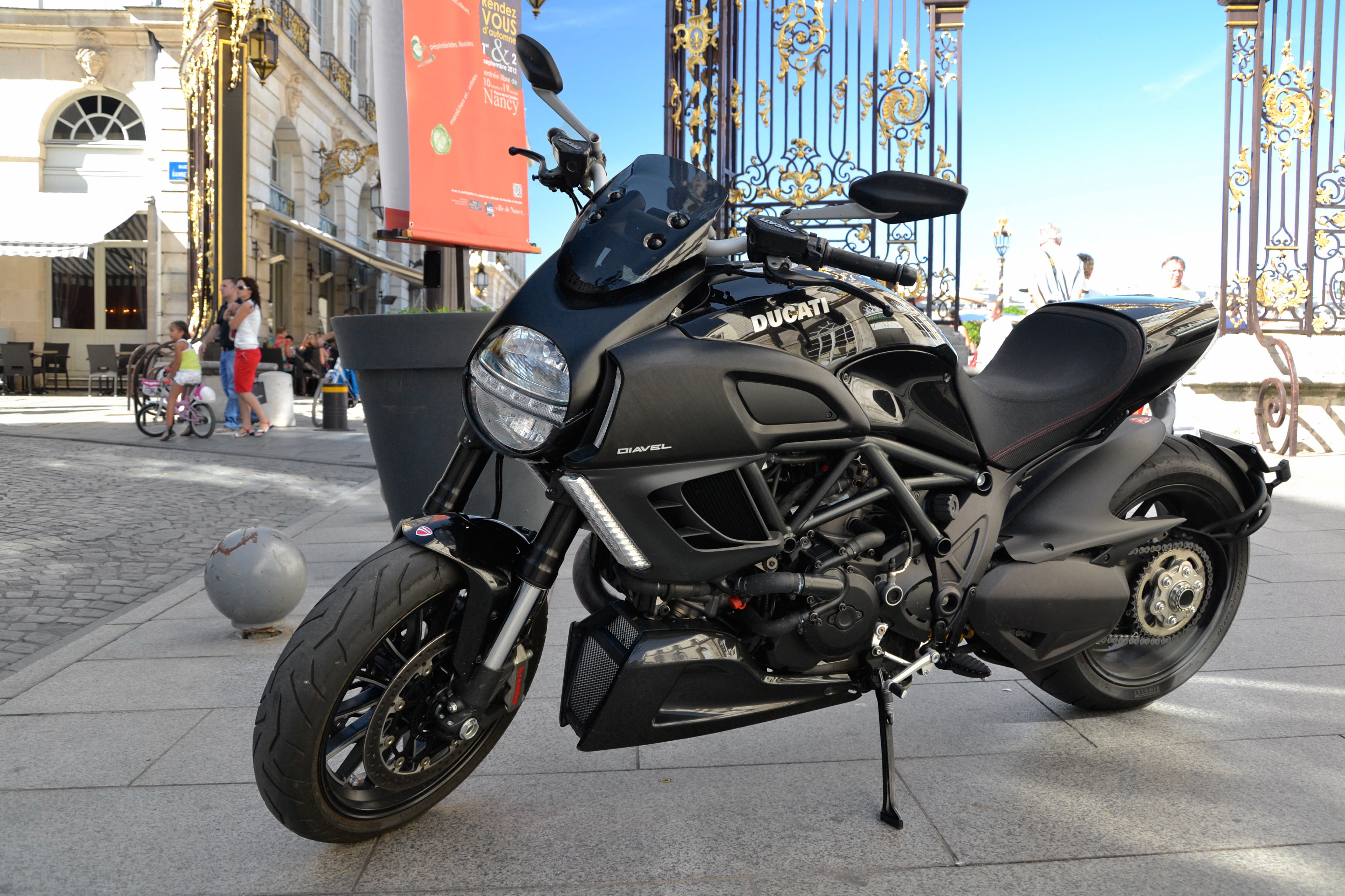 Black Ducati Diavel motorcycle in Nancy, France